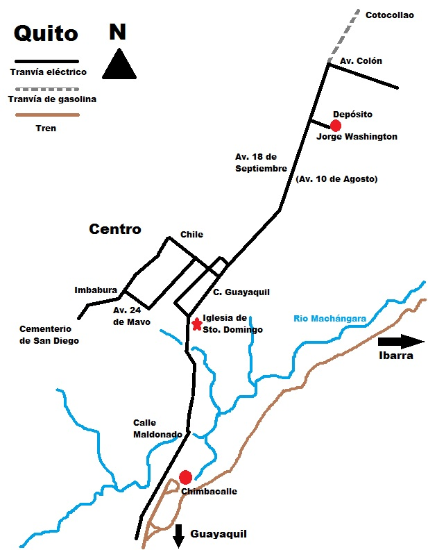 Quito Tramways route (1914-1948)